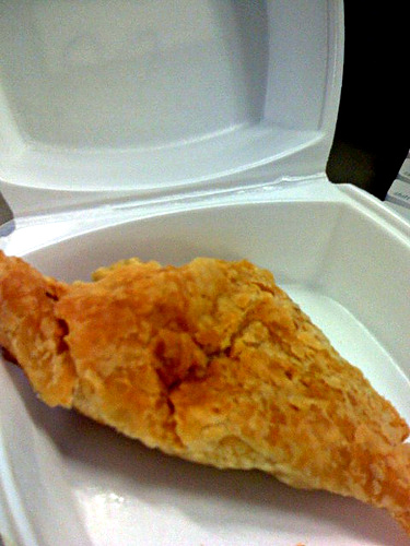 Picture of tyropita appetizer from Yiassoo (Greek fast food).